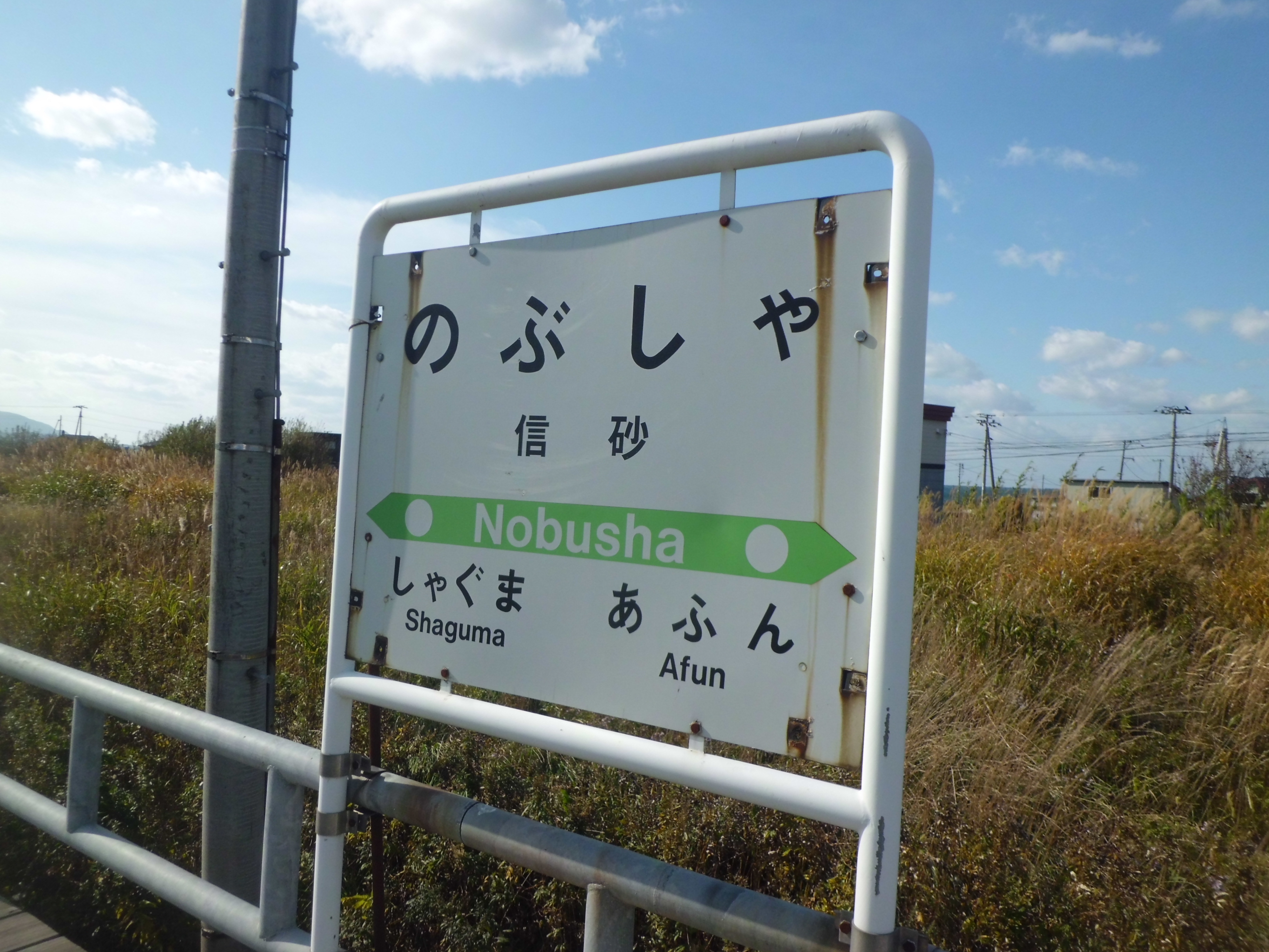 Station sign of Nobusha Station